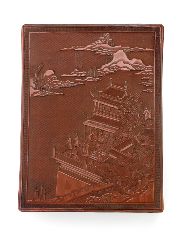 A Chinese Ming Dynasty red lacquer box over wood, dated to the reign of the Hongzhi Emperor (1488 - 1505 AD), now housed in the Freer Gallery of Art, Smithsonian, Washington D.C. URL: Copyright